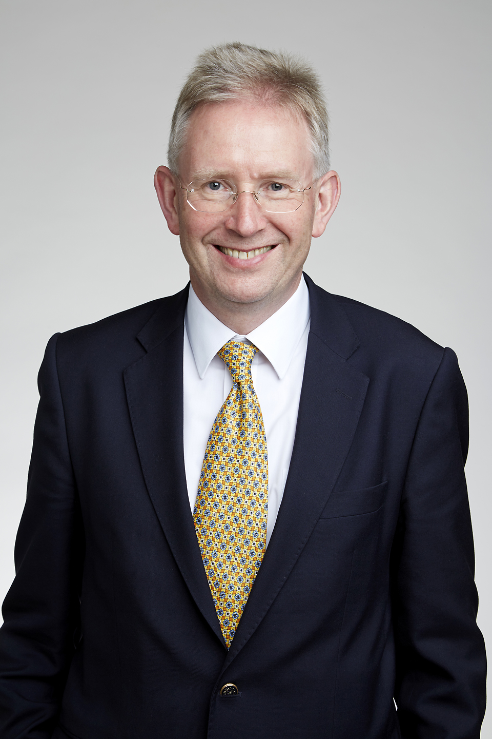 Christopher Abell FRS FRSC FMedSci (born 11 November 1957) is a British biological chemist. As of 2016, he is Professor of Biological Chemistry at the Department of Chemistry of the University of Cambridge and Todd-Hamied Fellow of Christ's College, Cambridge. Attribution: The Royal Society